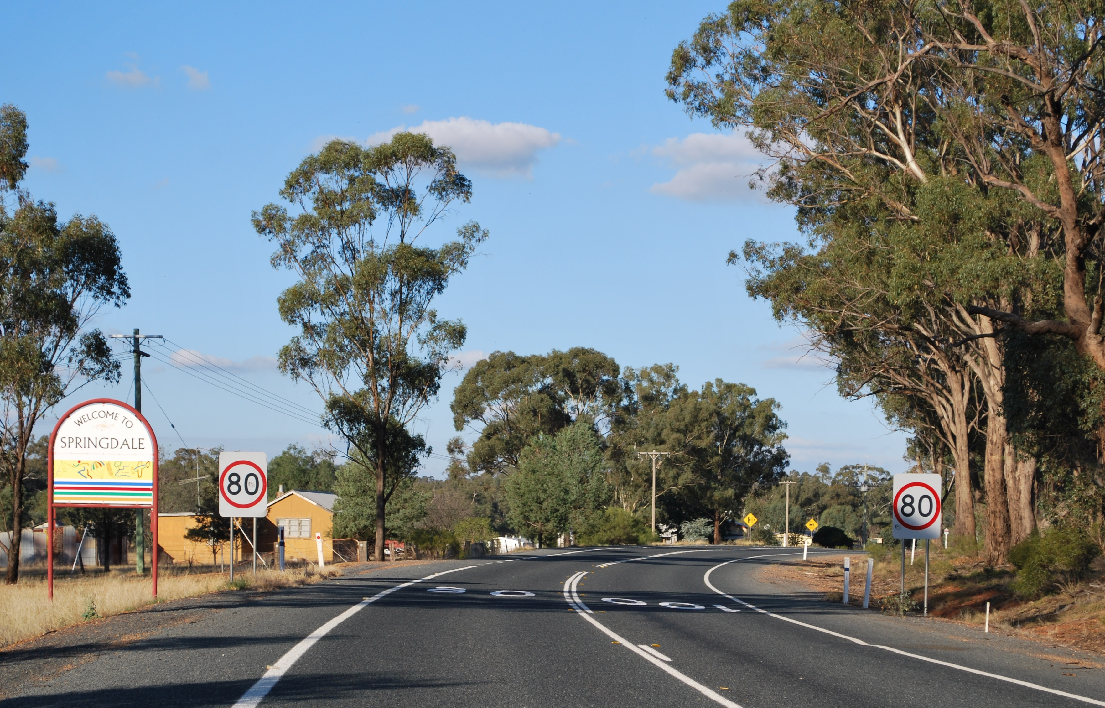 Town entry sign at Springdale, New South Wales